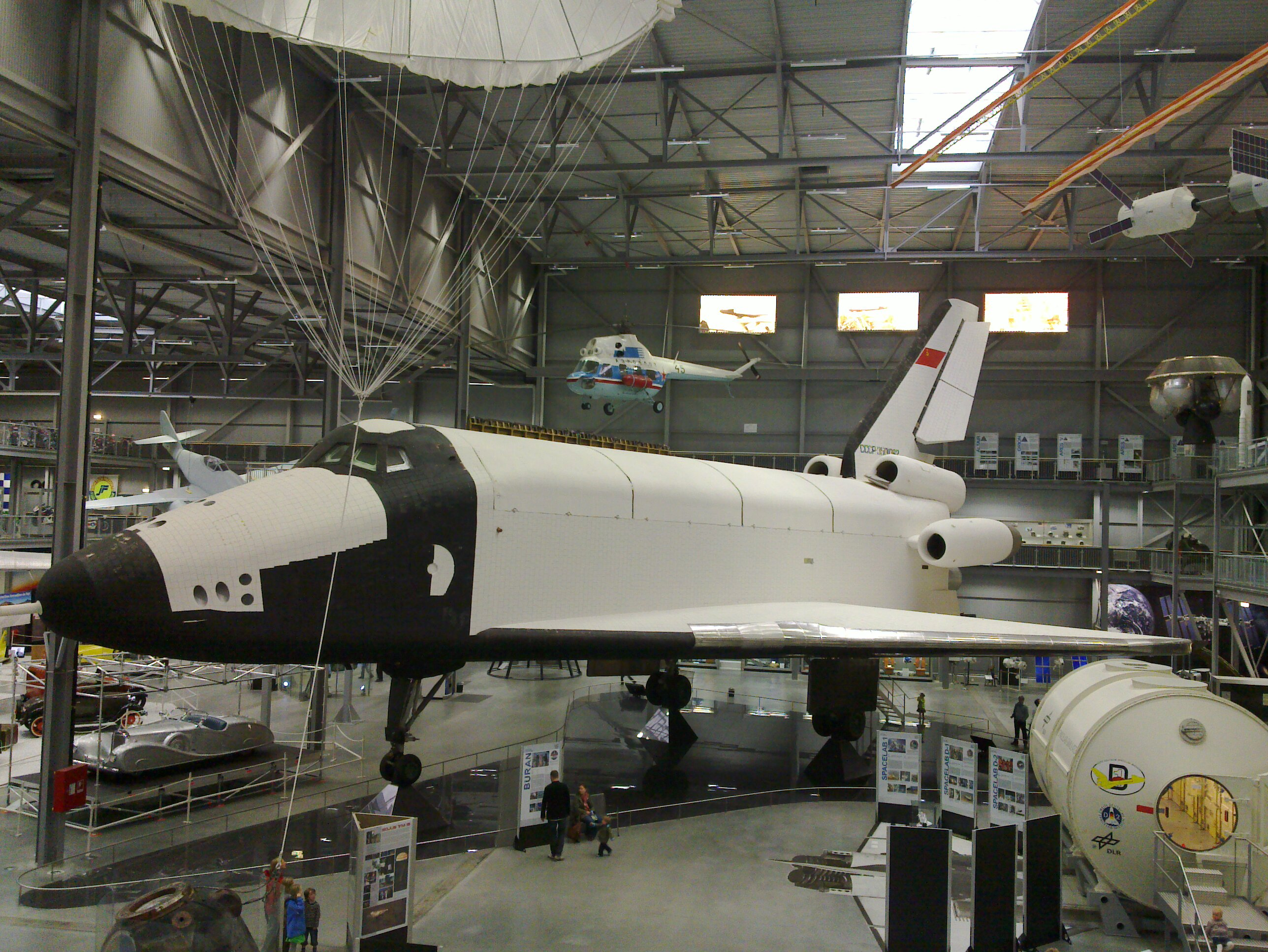 A side picture of the russian Buran space shuttle in the Technik-Museum Speyer, Germany